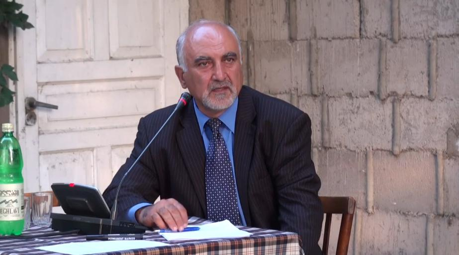 Armenian politician Paruyr Hayrikyan in 2011